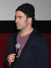 Tomer Heymann. International Gay and Lesbian Film Festival «Side by Side» 2010